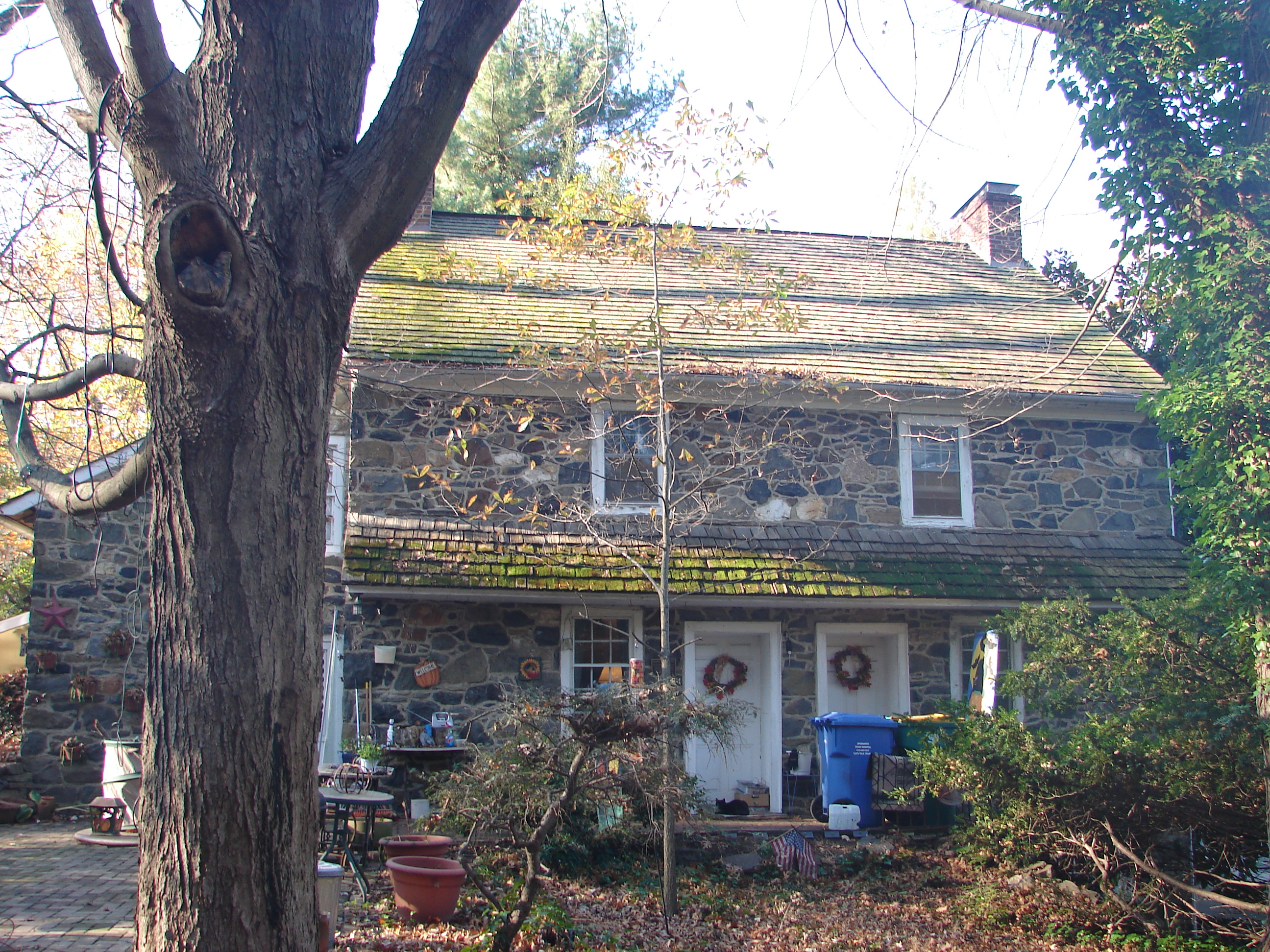 "Hand Wrought" worker's cottage in Delaware County, PA. On NRHP.